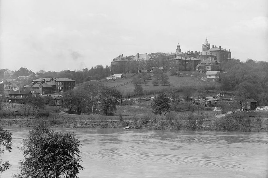 The University of Tennessee, viewed from across the Tennessee River, in Knoxville, Tennessee, USA.